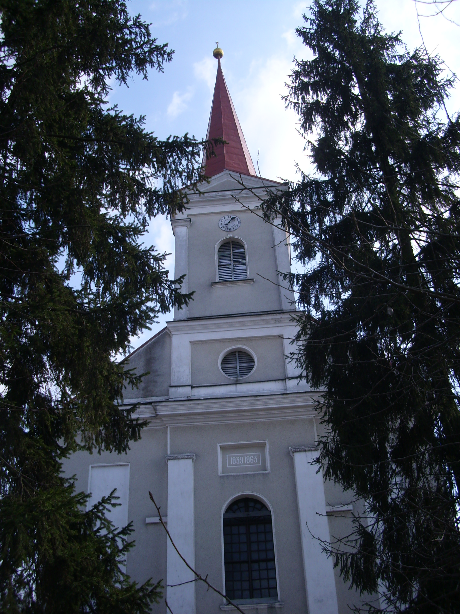 Reformed Church, Târgu Lăpuş, Romania (18th century)